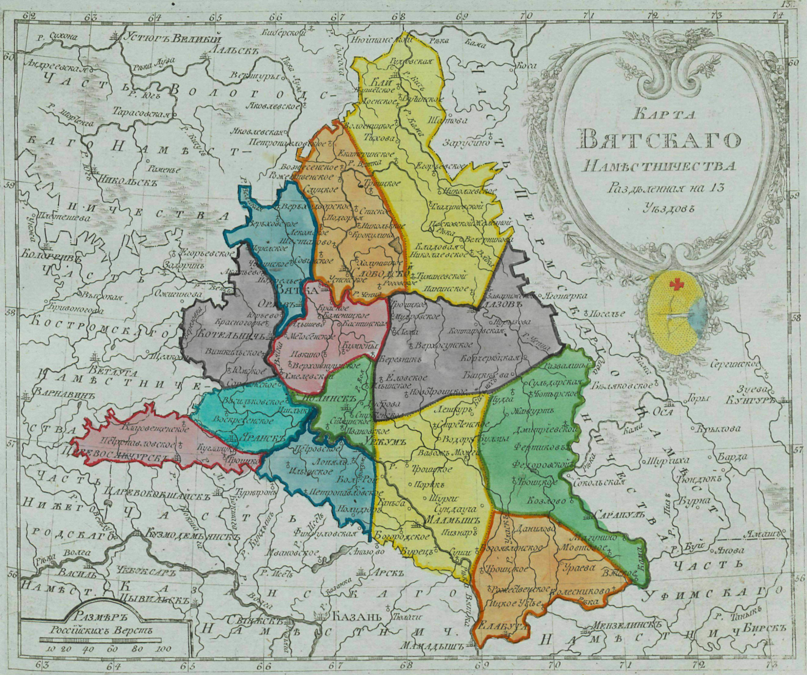 Small atlas of the Russian Empire (1792). Map of Vyatka Namestnichestvo (map 14).